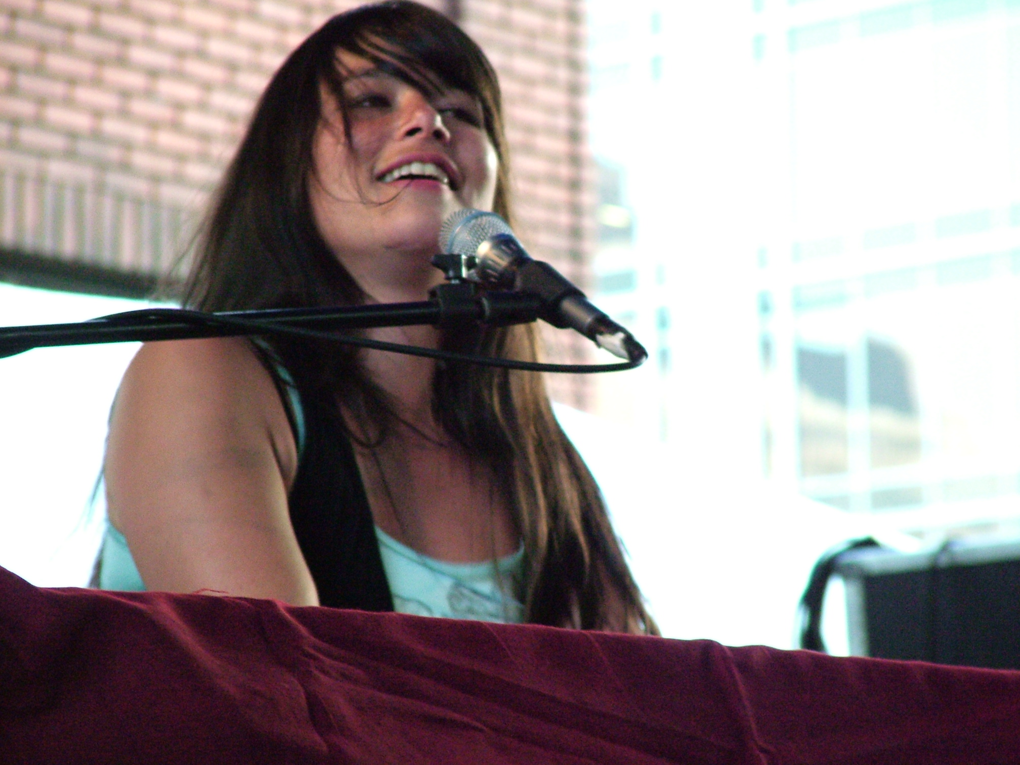 Rachael Yamagata on the Momentum Telecom Stage